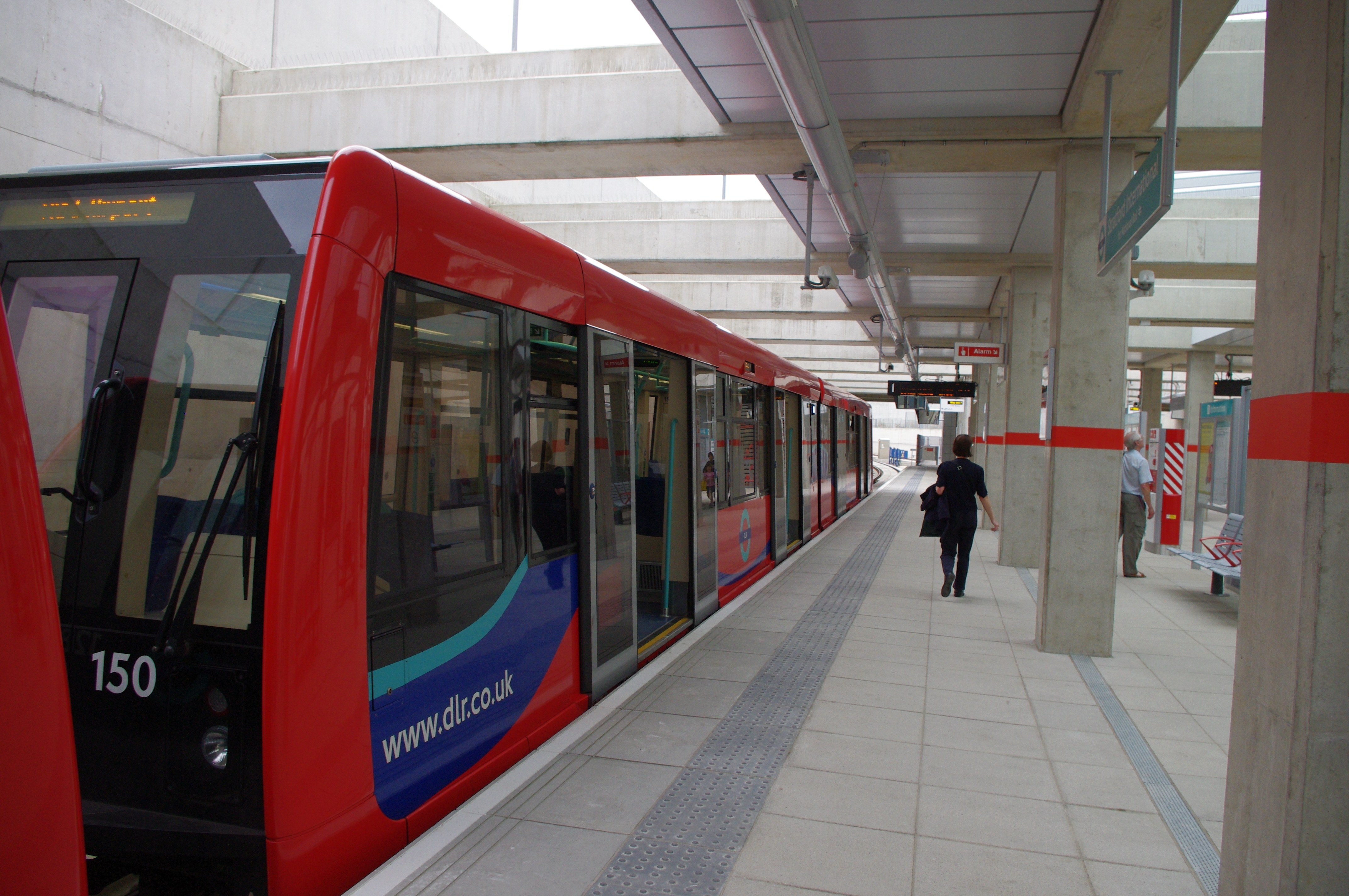 On the first day of passenger operation, DLR B07 stock No. 150 stands at Stratford International DLR station having just terminated.